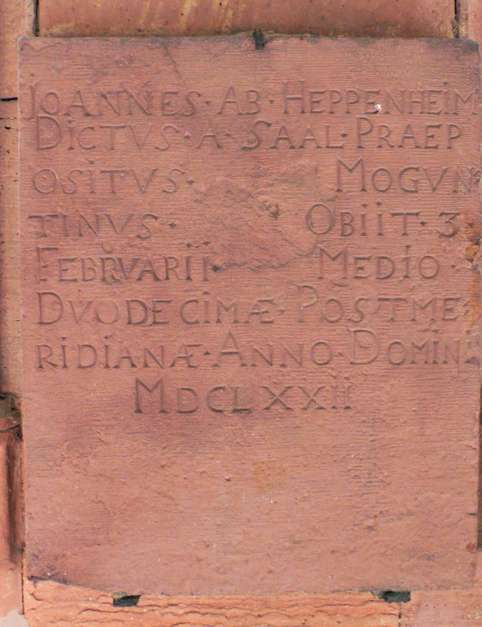 Epitaphplatte des Domdekans Johann von Heppenheim genannt vom Saal (+1672), Kreuzgang, Mainzer Dom